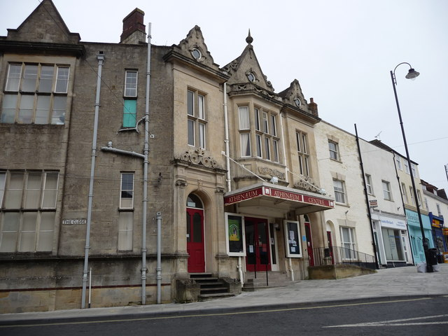 Warminster - The Atheneum Centre This community centre can be found in the High Street.